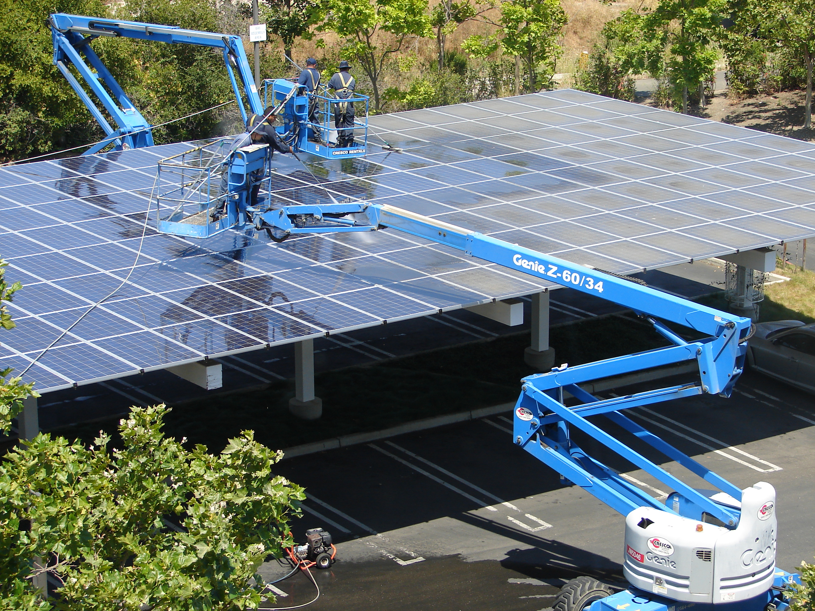 Cleaning of solar panels of the car ports at Googleplex, Mountain View, California